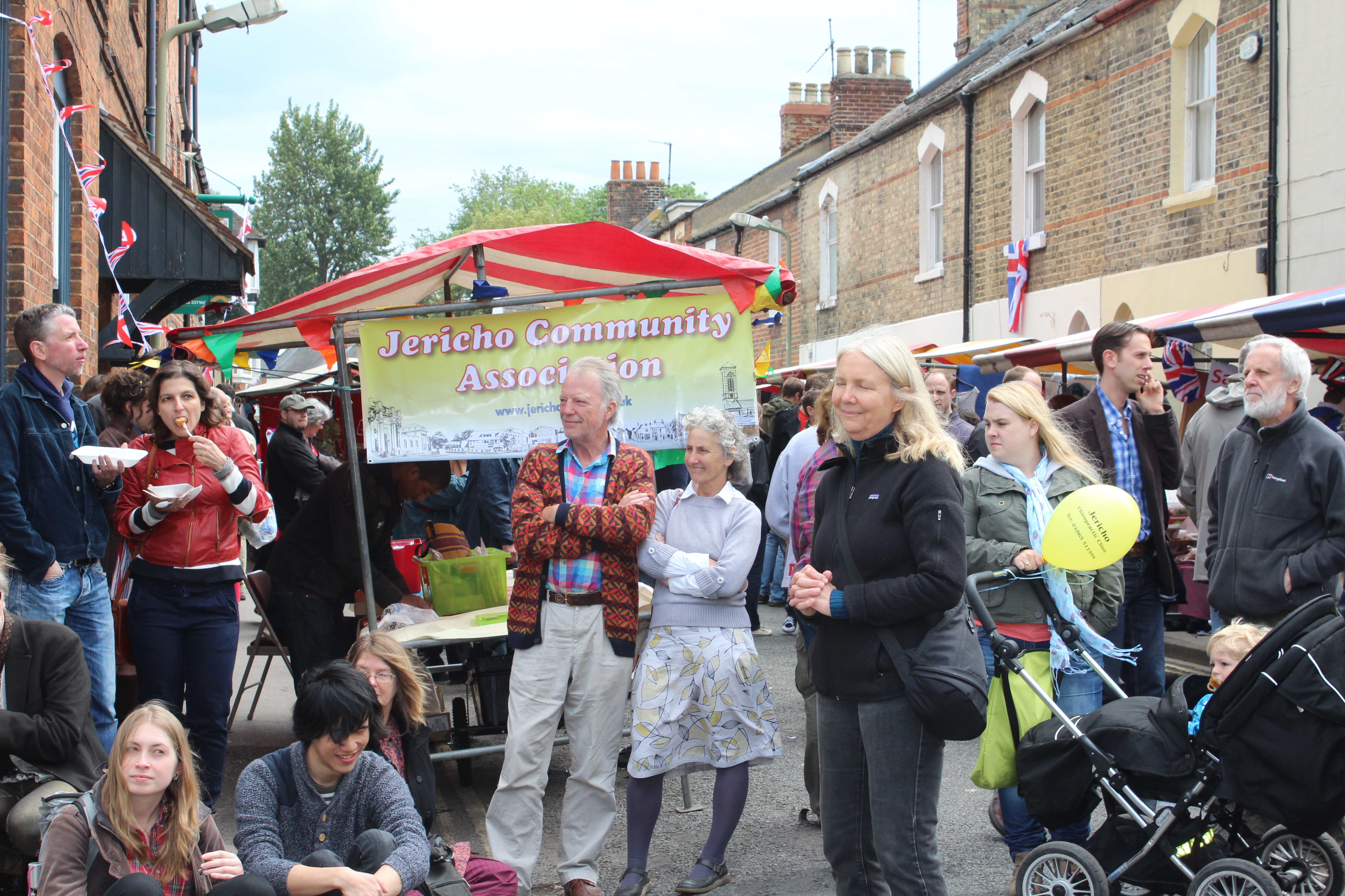 The annual street fair organized by the Jericho Community Association in Jericho, Oxford, United Kingdom